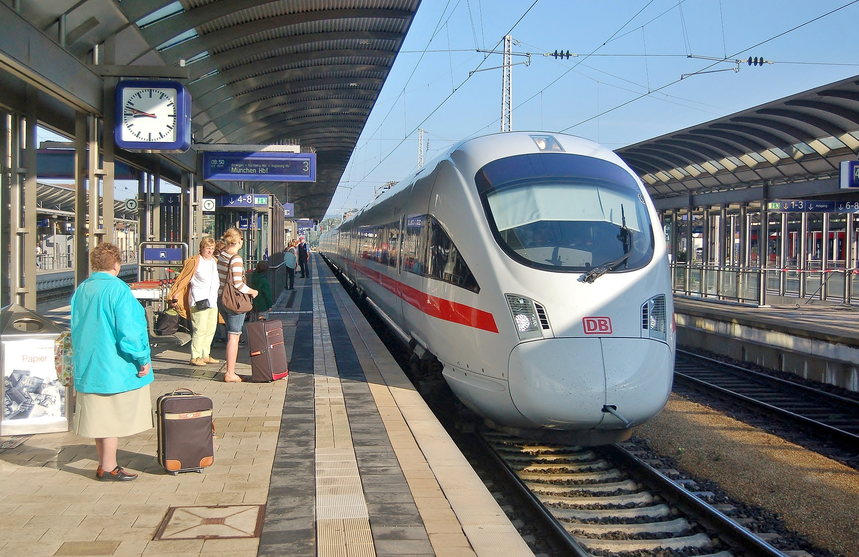 A Deutsche Bahn ICE T of class 411 arrives at Bamberg station with ICE 1511 from Leipzig Hbf to München Hbf.